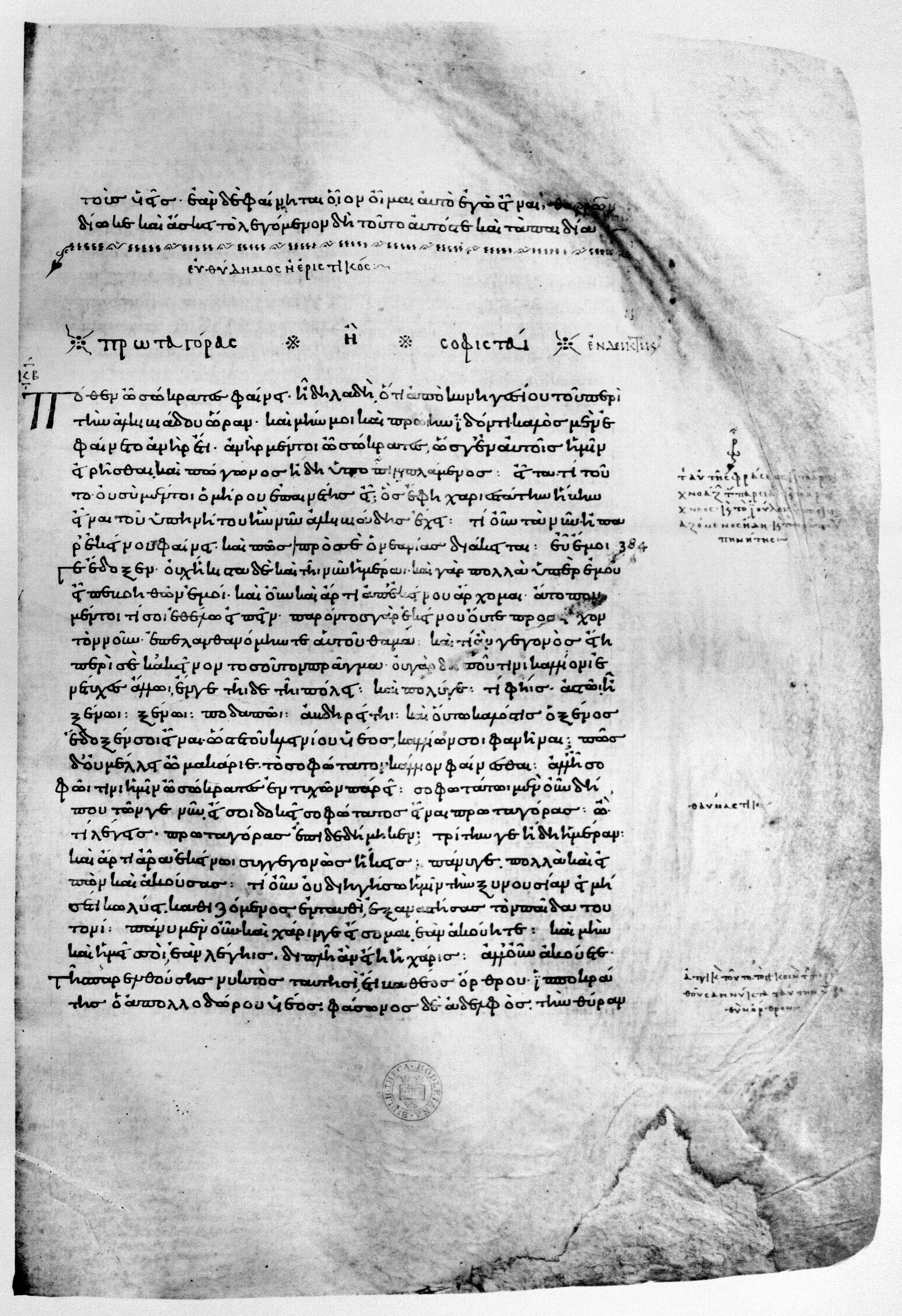 Page of the Codex Oxoniensis Clarkianus 39 (Clarke Plato). Dialogue Protagoras.